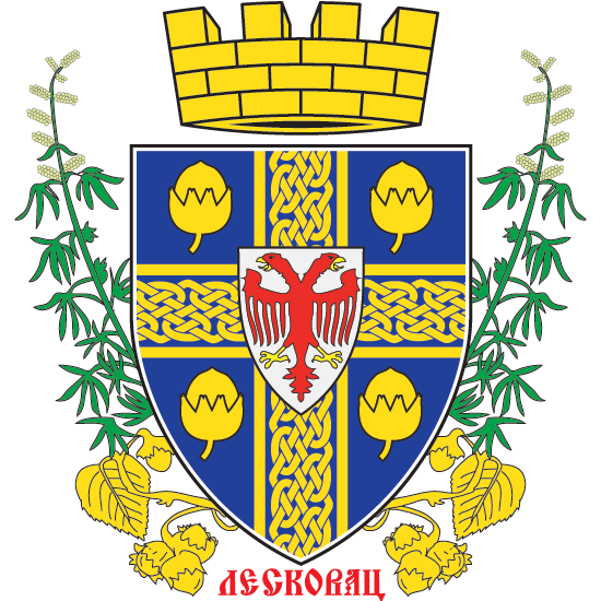 Middle coat of arms of Leskovac